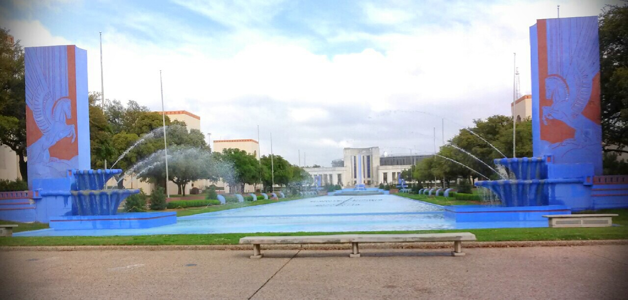 Dallas Fair Park